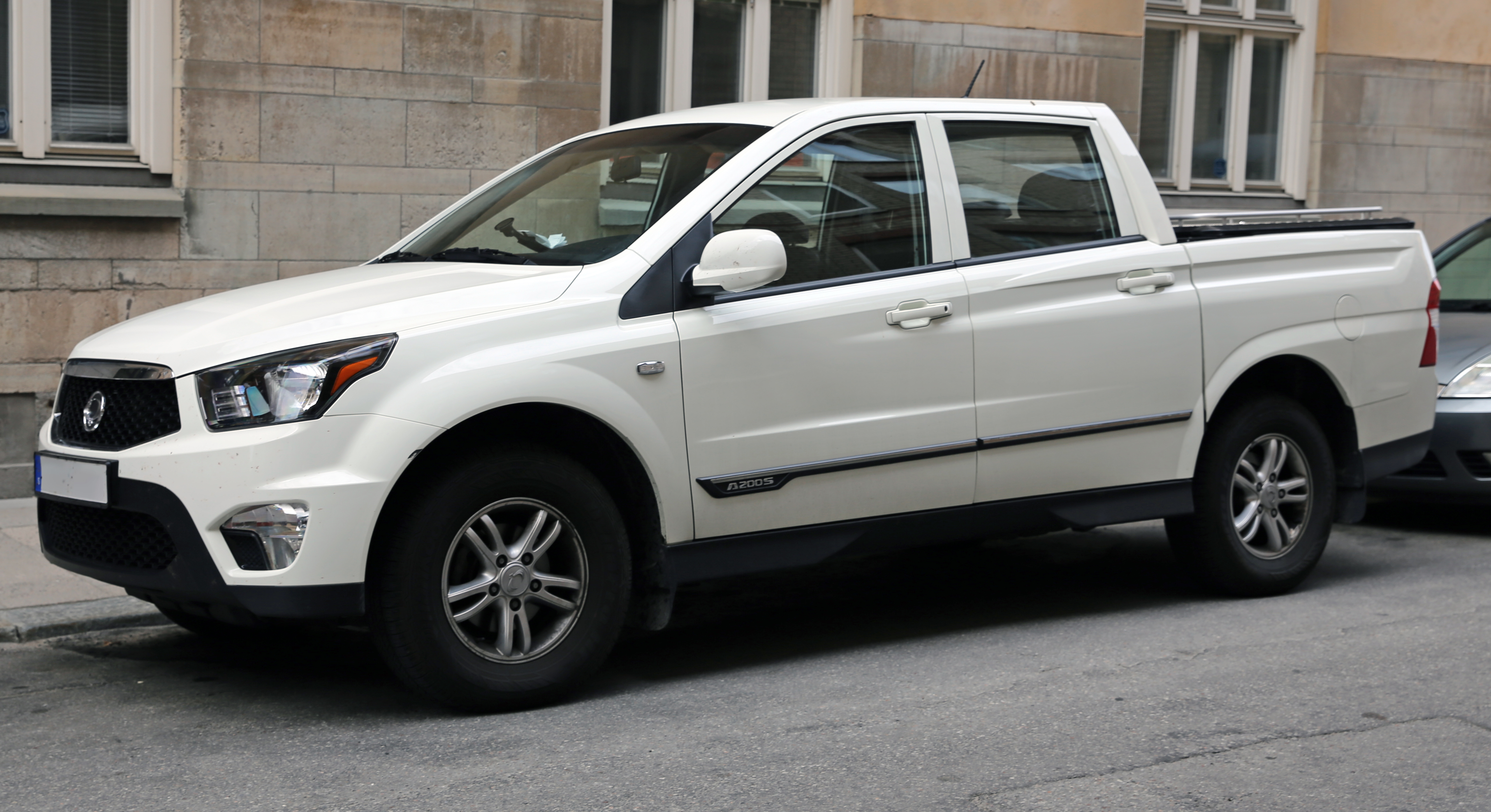 2012 Ssangyong Actyons Sports D200S in Stockholm. It has a 155PS (114kW) 1998cc turbodiesel inline-four, manufacture date is February 2012.